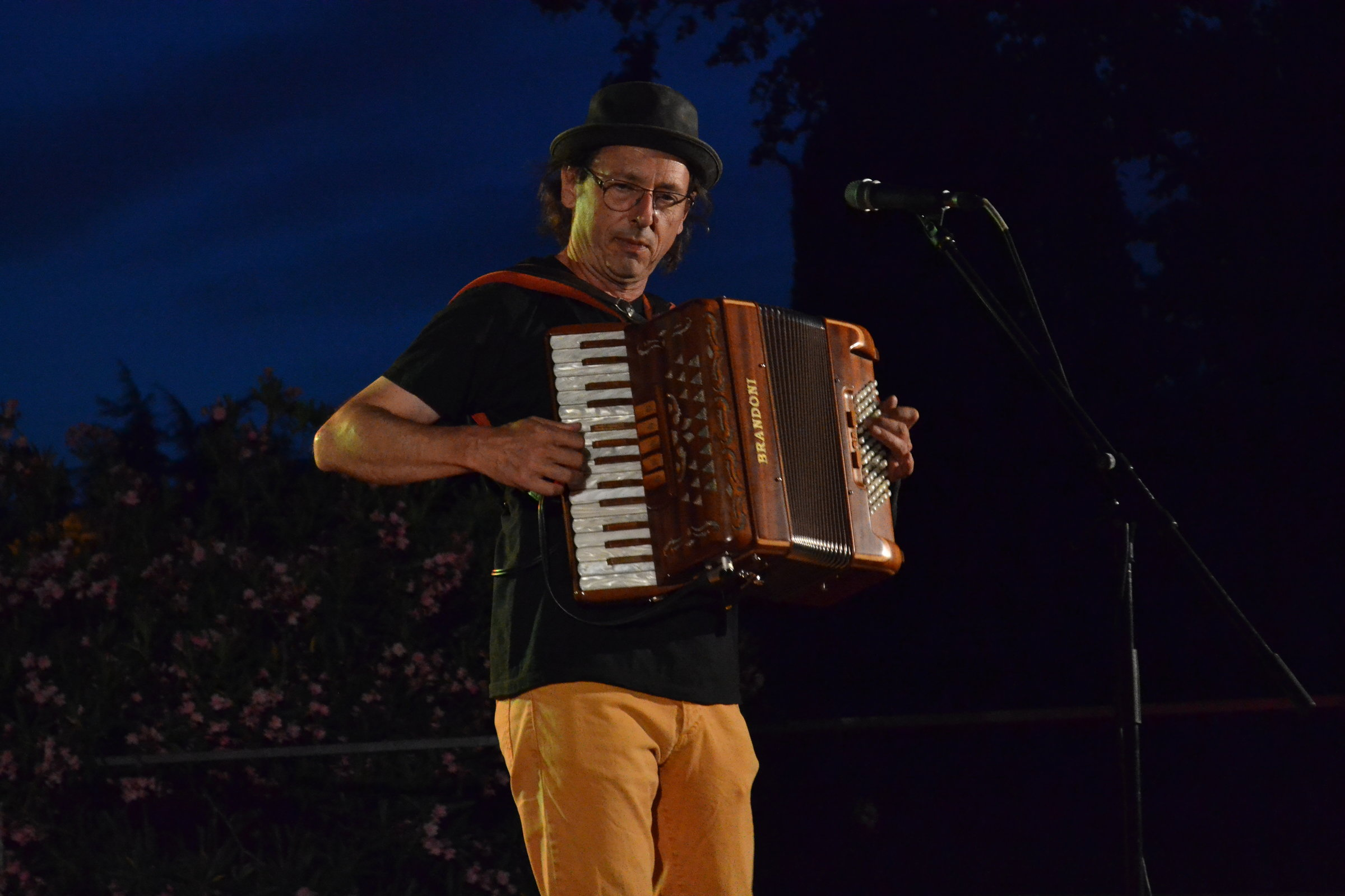 Castanha e Vinovèl in Portiragnes during CanalissimÔ festival 2015.